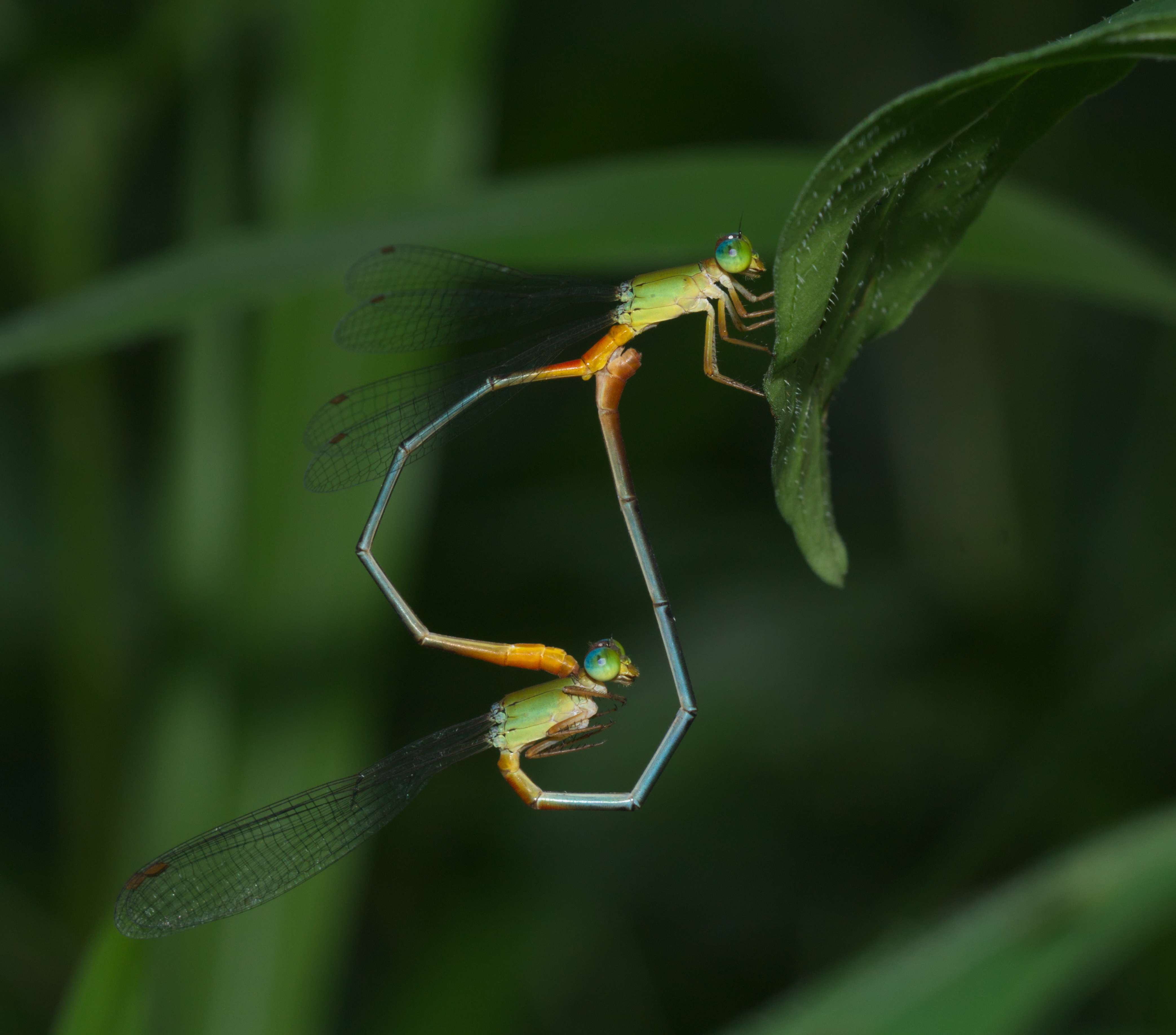 Ceriagrion cerinorubellum is a species of damselfly in the family Coenagrionidae. It's commonly known as the Bi-coloured damsel or Orange-tailed marsh dart.